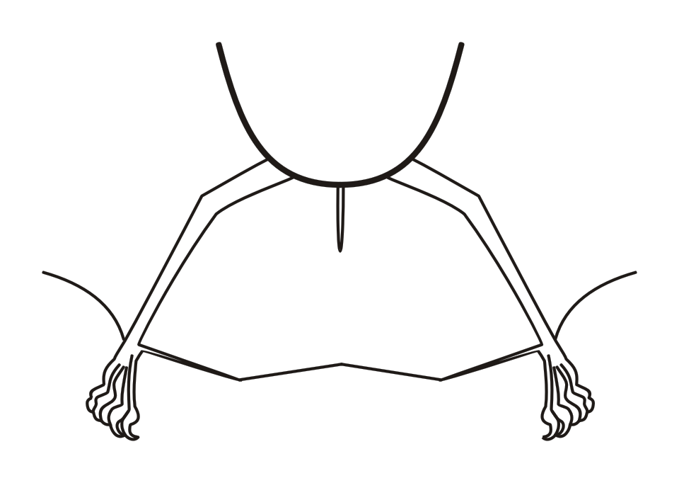 According to Husson, 1962 shows interfemoral membranes, calcar, feet and tail in bats of genus Micronycteris